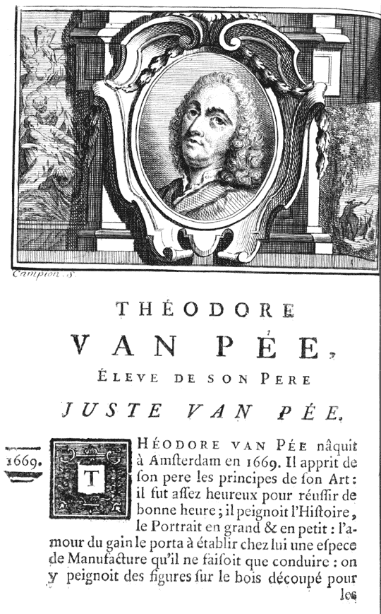 Biography of Theodore van Pee with engraved portrait featured on page 134 of "Tome Quatrieme" of Jean-Baptiste Descamps' "La Vie des Peintres Flamands", 4 volumes (I 1753, II 1754, III, 1760, IV 1764)